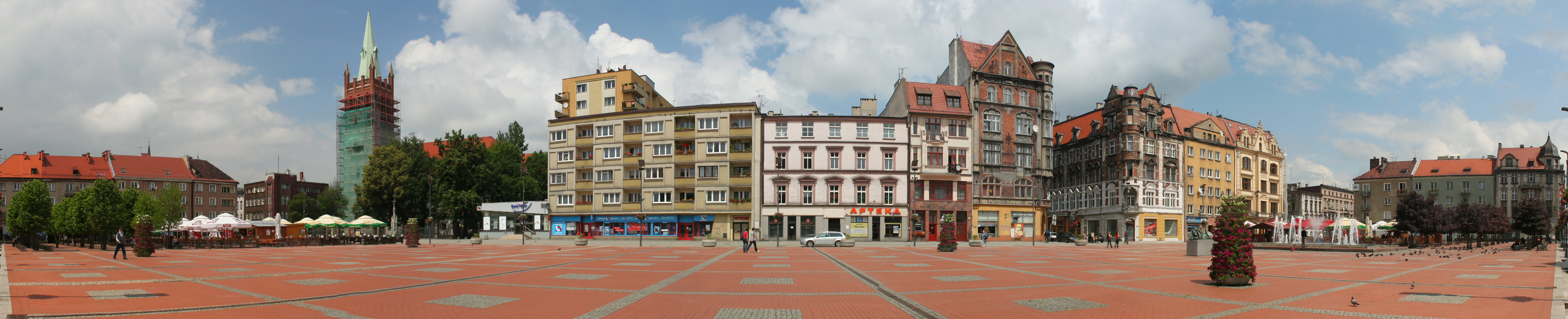 Market square in Bytom.